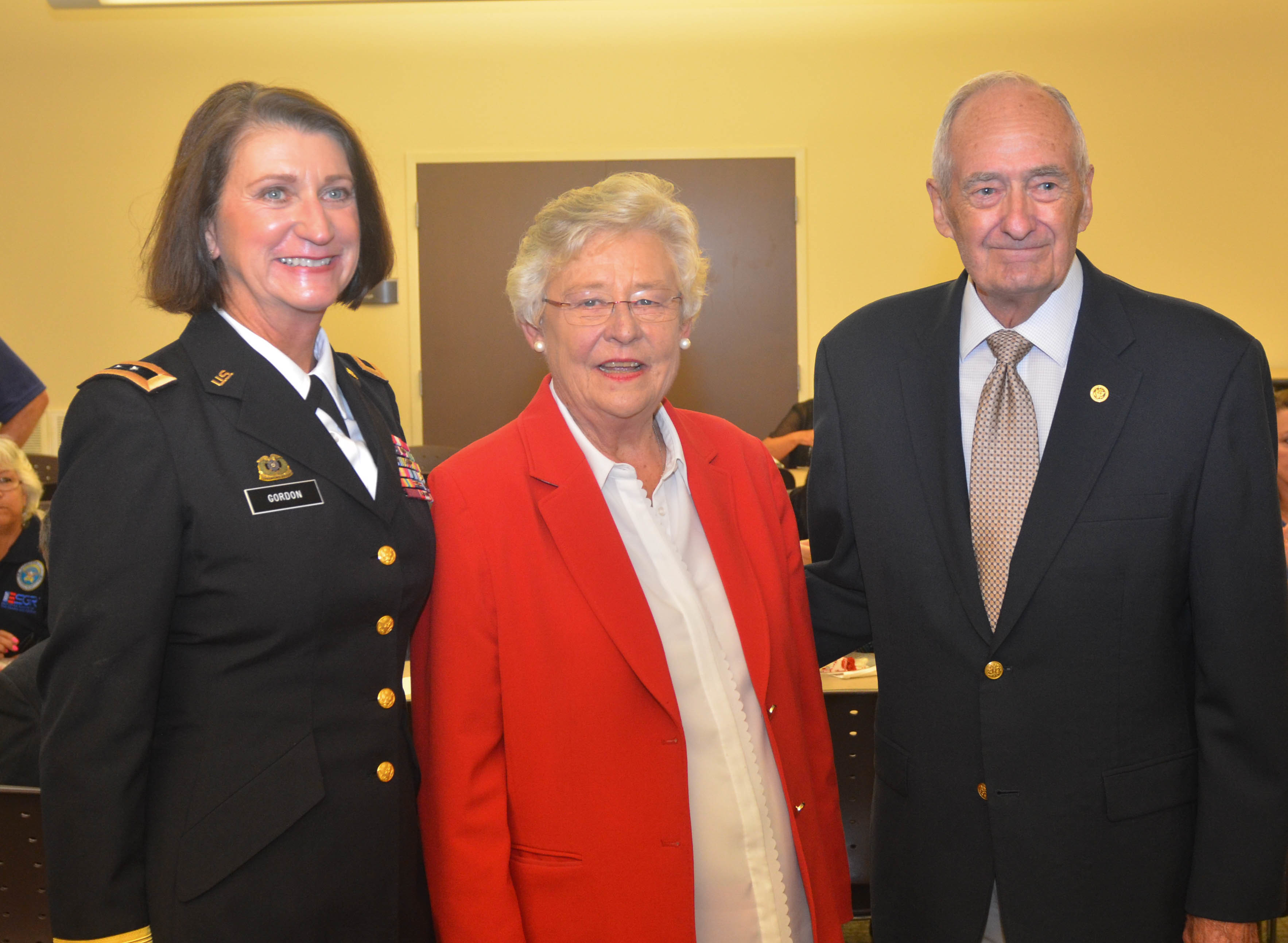 Maj. Gen. Sheryl E. Gordon, adjutant general, Alabama National Guard, stands with Gov. Kay Ivey and former adjutant general Ivan F. Smith (1987-1992), at the adjutant general change of command ceremony at Joint Force Headquarters, Alabama National Guard, Montgomery, Alabama, July 28, 2017.